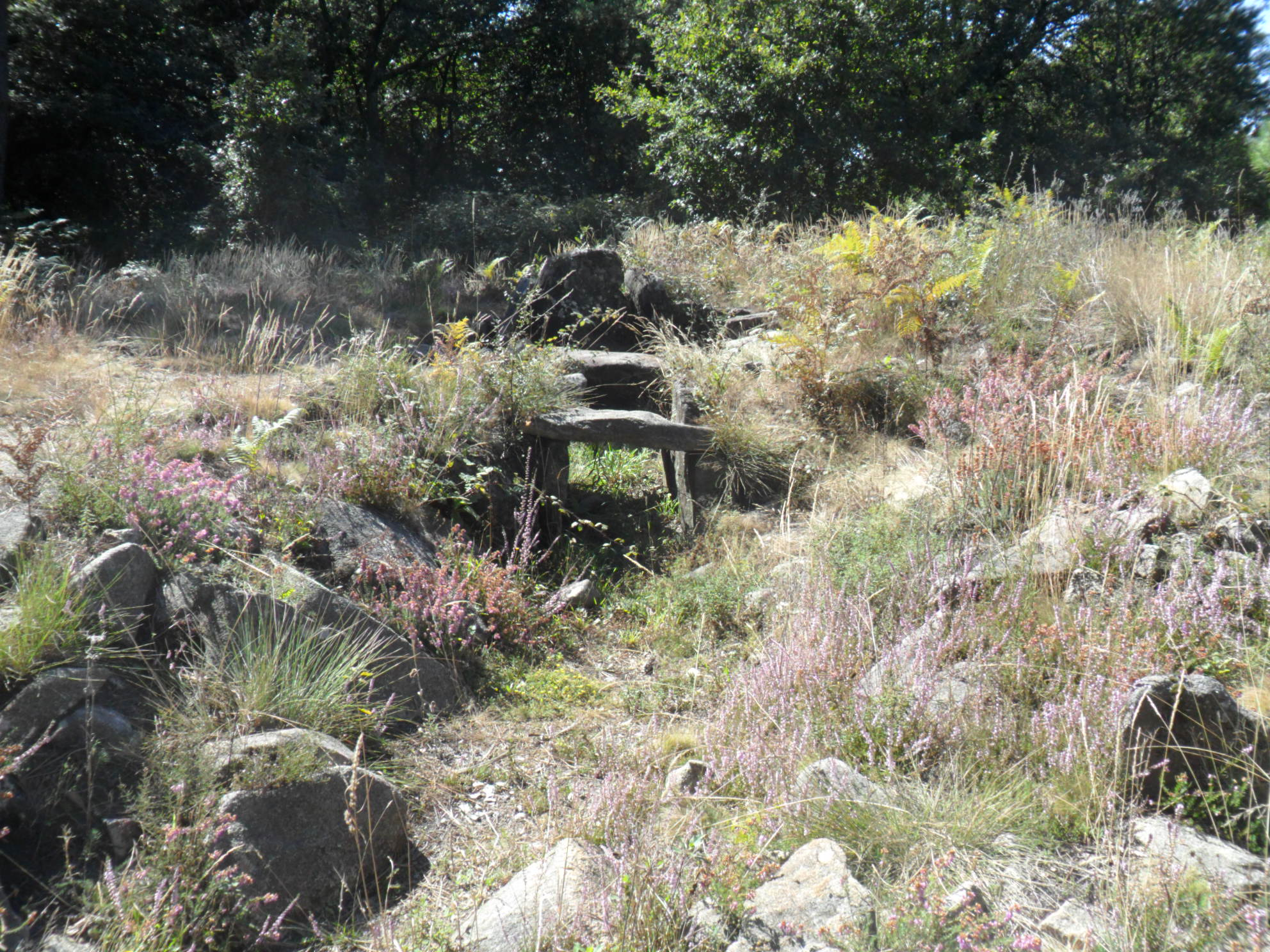 This file was uploaded for Wiki Loves Monuments in Portugal with the unique identifier 73183.